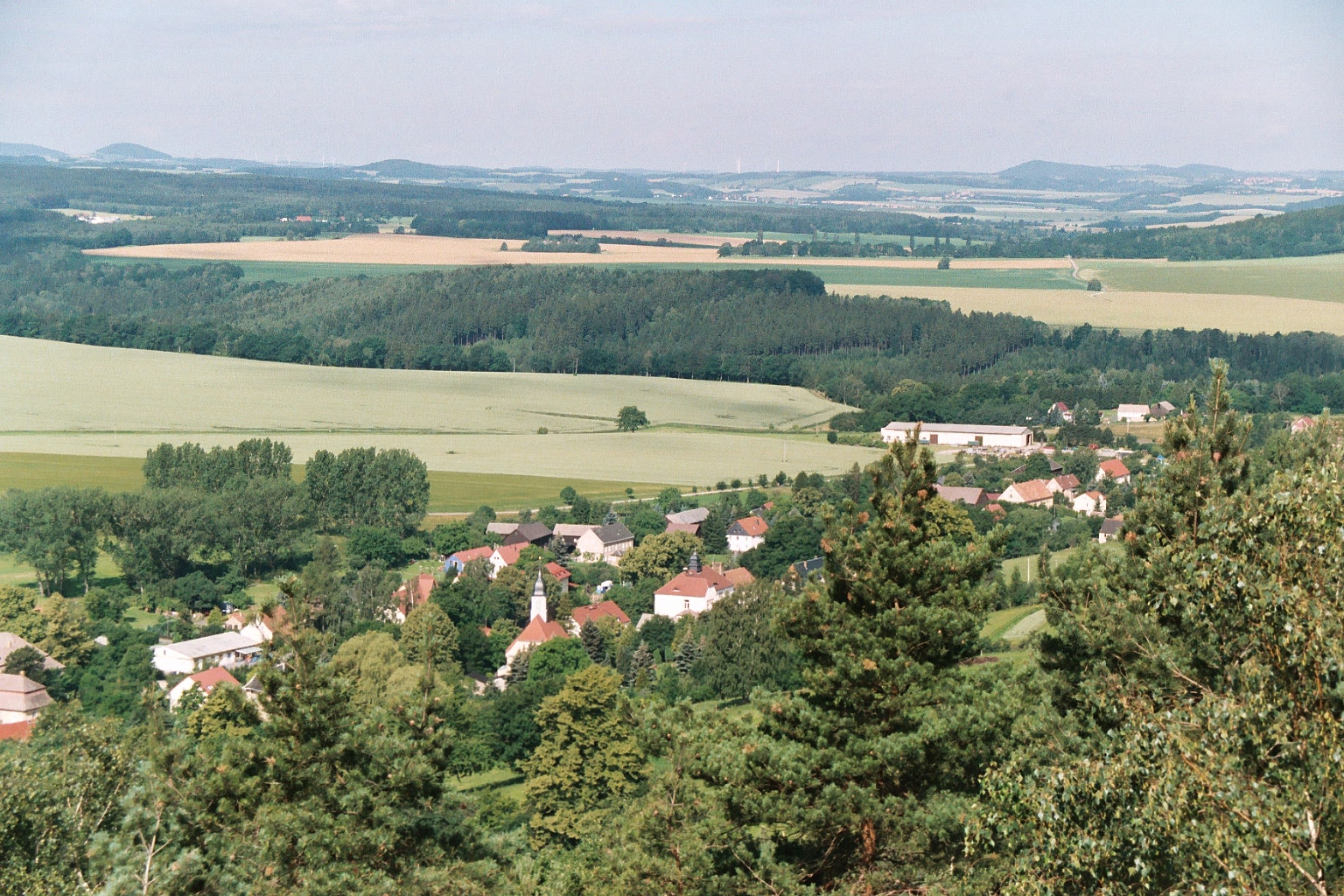 Langenhennersdorf, view from Napoleonstein to Langenhennersdorf